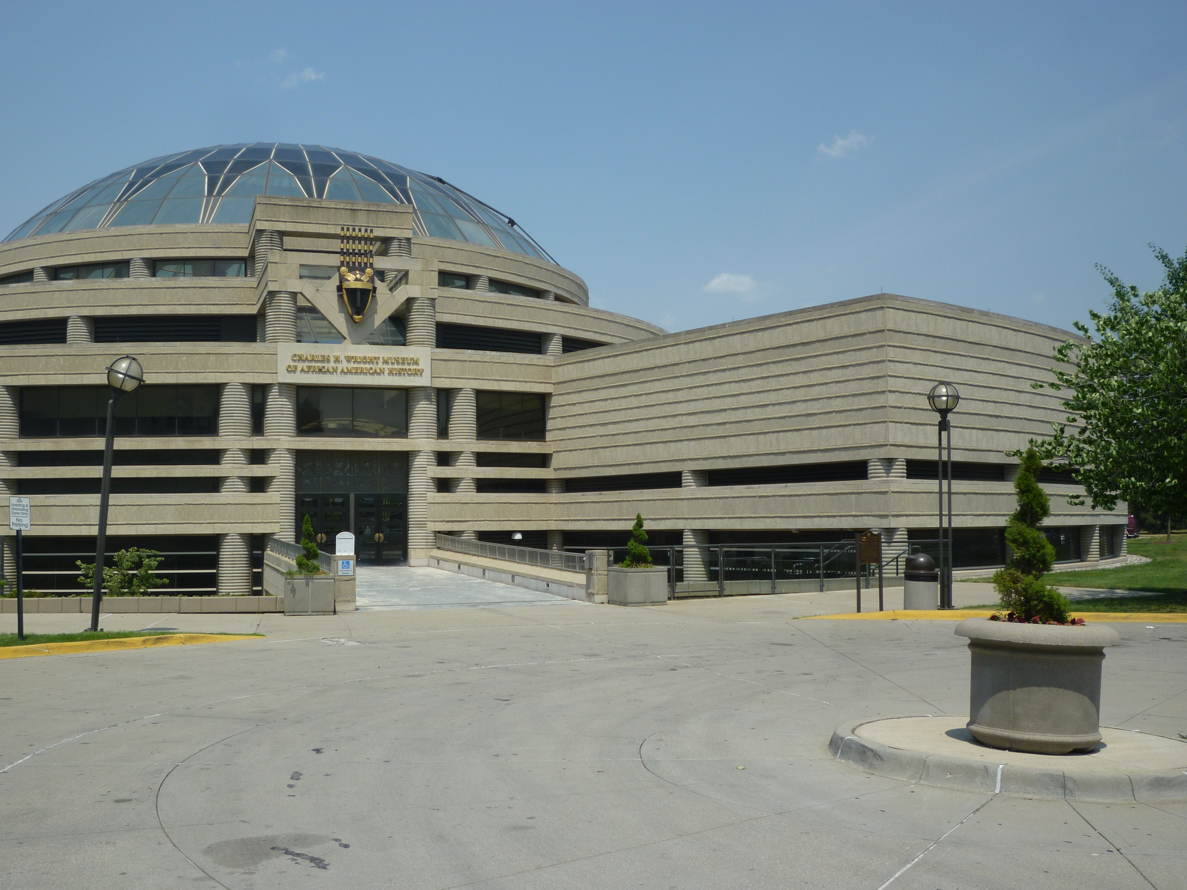 Front entrance of the the Charles H. Wright Museum of African American History in Detroit, Michigan.